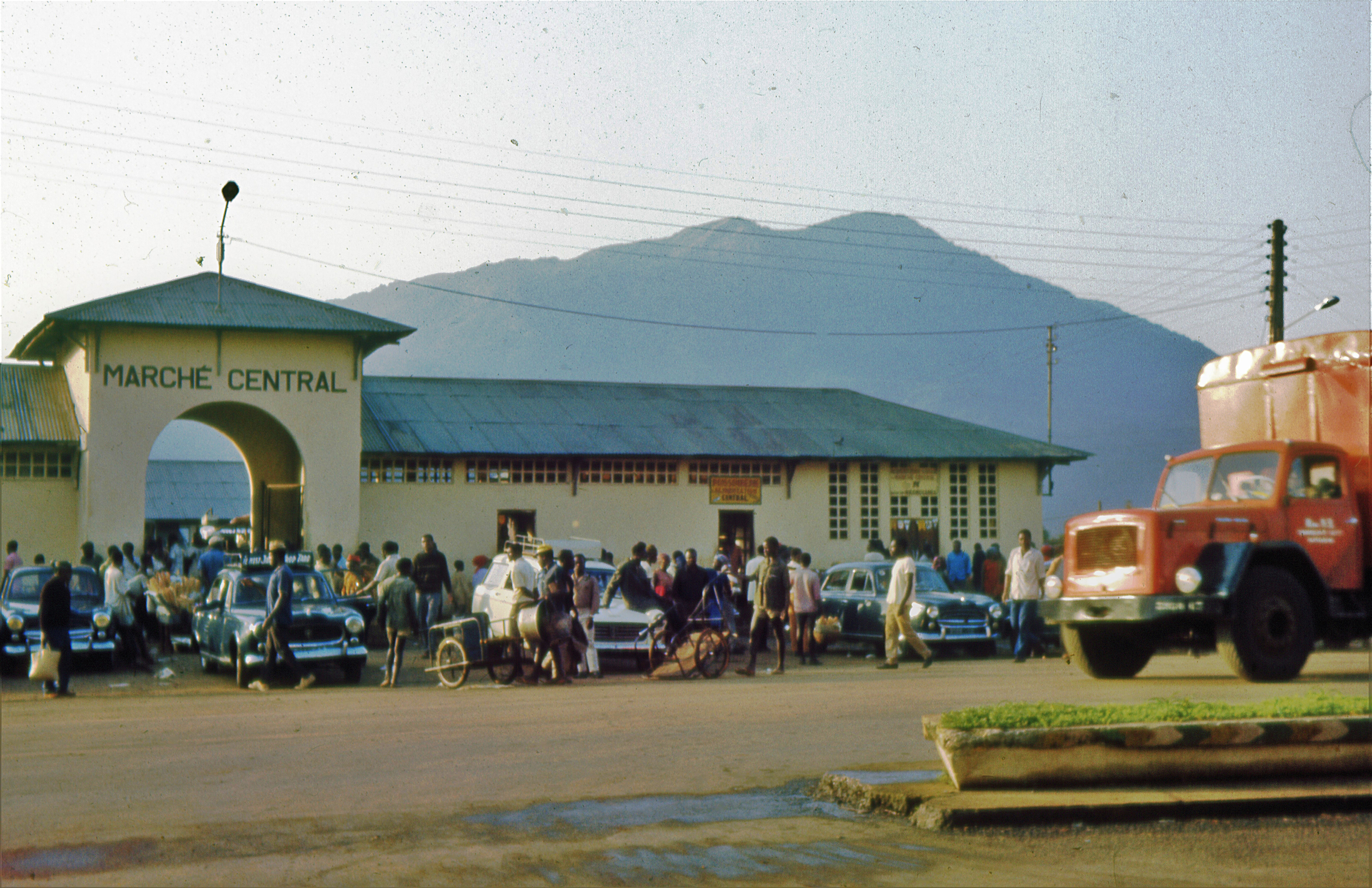 Nkongsamba central market. Cameroon This is an image with the theme "Africa on the Move or Transport" from: Cameroon